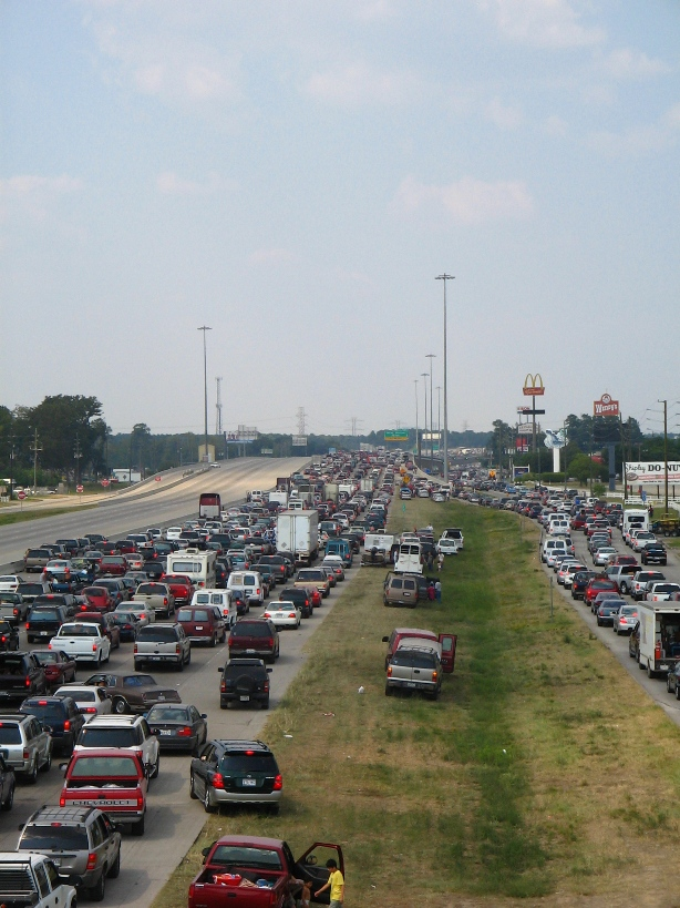 Hurricane Rita evacuation from the Louetta Road (exit 68) overpass. Evacuees fleeing Hurricane Rita in Texas, United States.